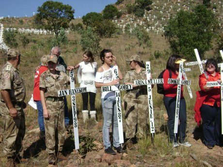 South African farm attacks